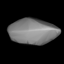 3D convex shape model of 1206 Numerowia, computed using light curve inversion techniques. J. Hanuš, J. Ďurech, M. Brož, B. D. Warner (June 2011). "A study of asteroid pole-latitude distribution based on an extended set of shape models derived by the lightcurve inversion method". Astronomy and Astrophysics 530: A134. ISSN 0004-6361. arXiv